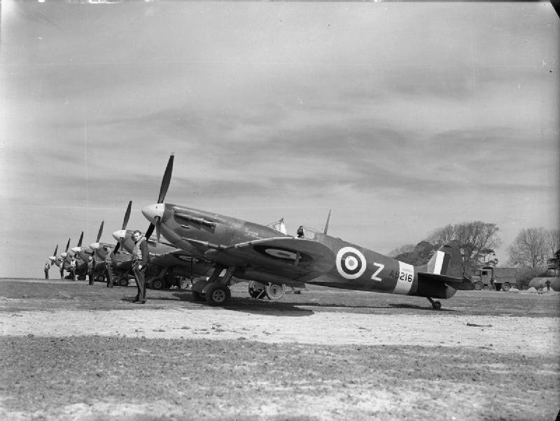 Aircraft of the Royal Air Force, 1939-1945- Supermarine Spitfire. Spitfire Mk Vs of No. 91 Squadron lined up at Hawkinge, May 1942. Standing nearest the camera is the Squadron’s Commanding Officer, Squadron Leader R W Oxspring, in front of his personal aircraft, a Mark VC, AB216: DL-Z. Next to him, in front of another Mark VC, is the 'B' Flight commander, Flight-Lieutenant F H Silk. The remaining aircraft are Mark VBs